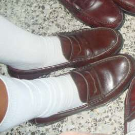 School socks.